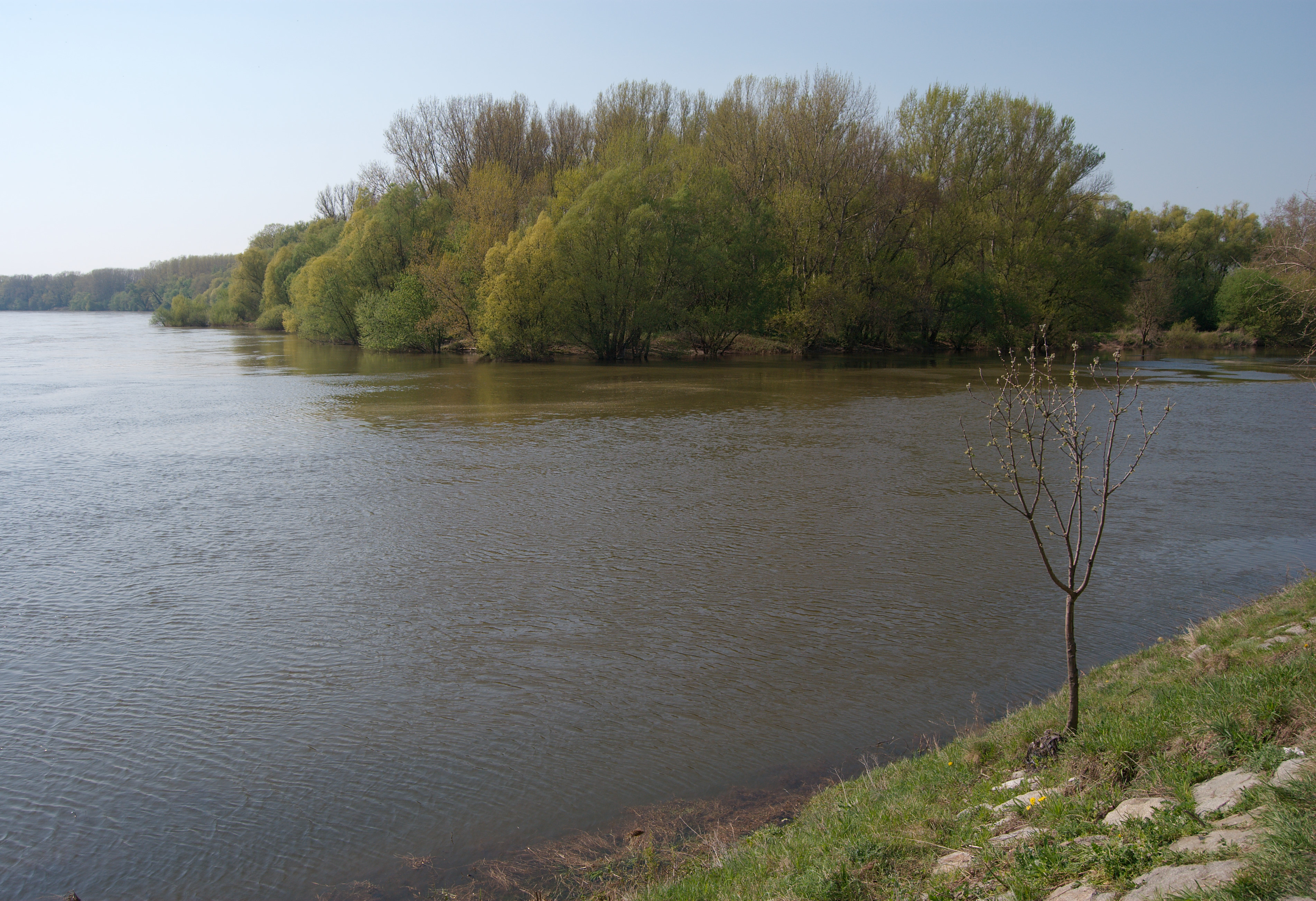 Morava (on right side) meet Danube (on left side)